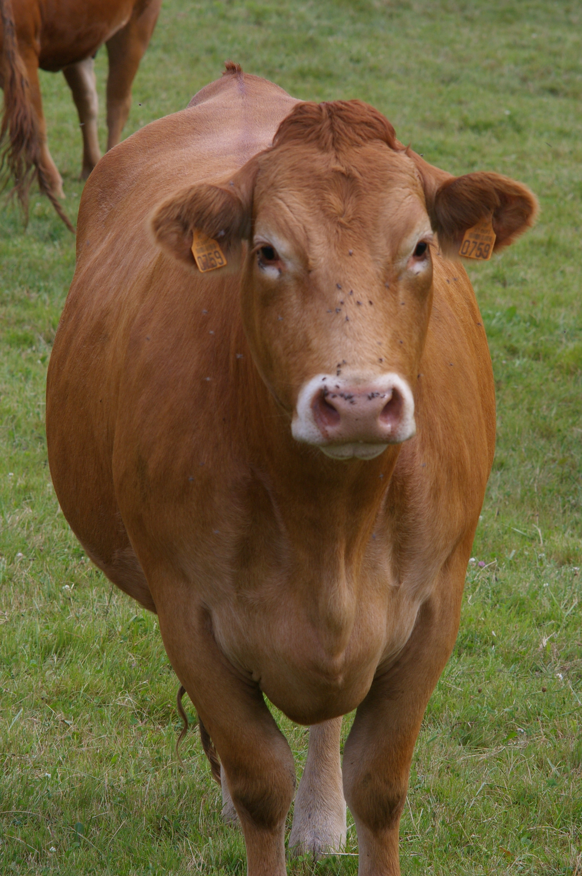 Limousin cow